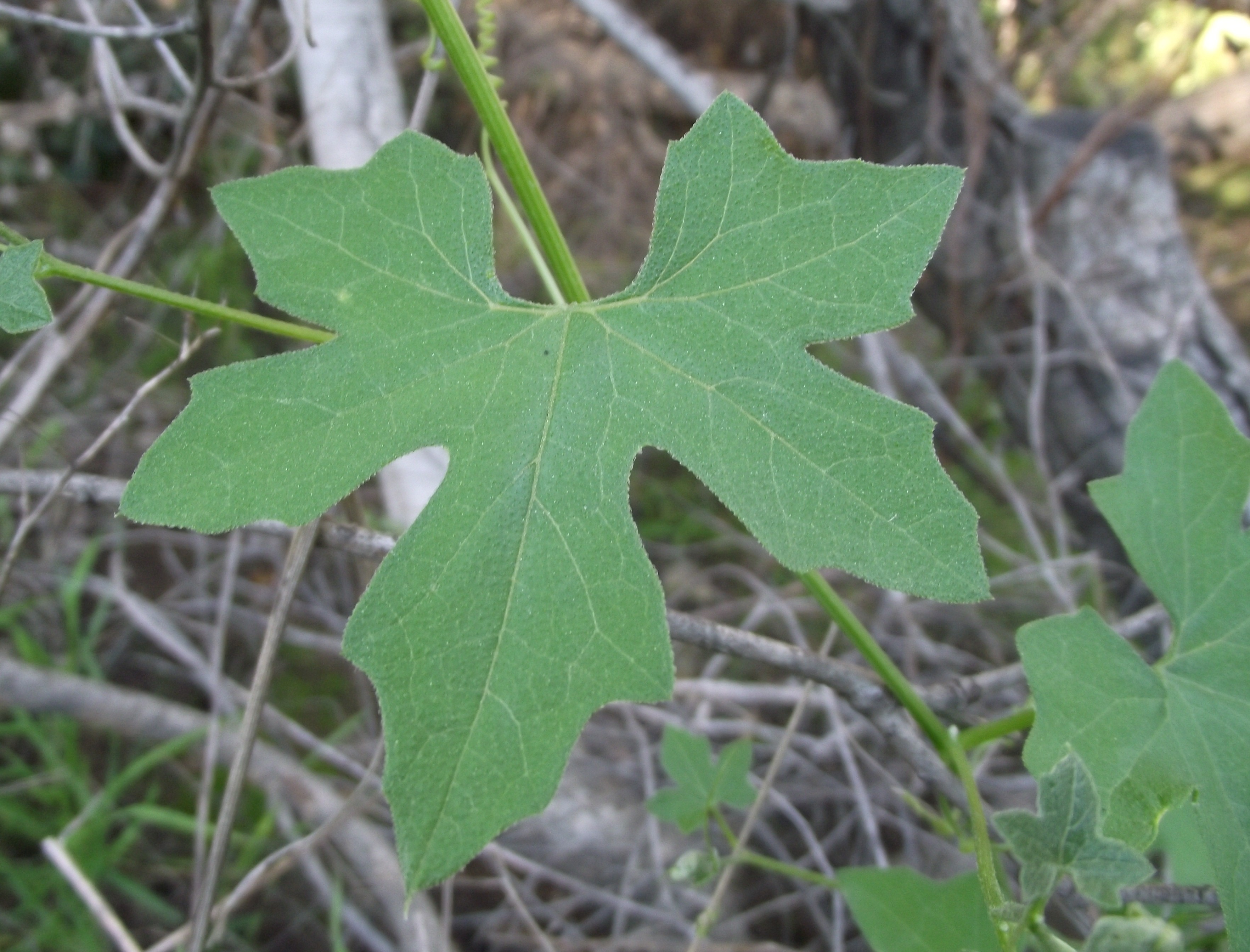 Leaf of Marah macrocarpus at Blue Sky Ecological Reserve, Poway, California, USA.